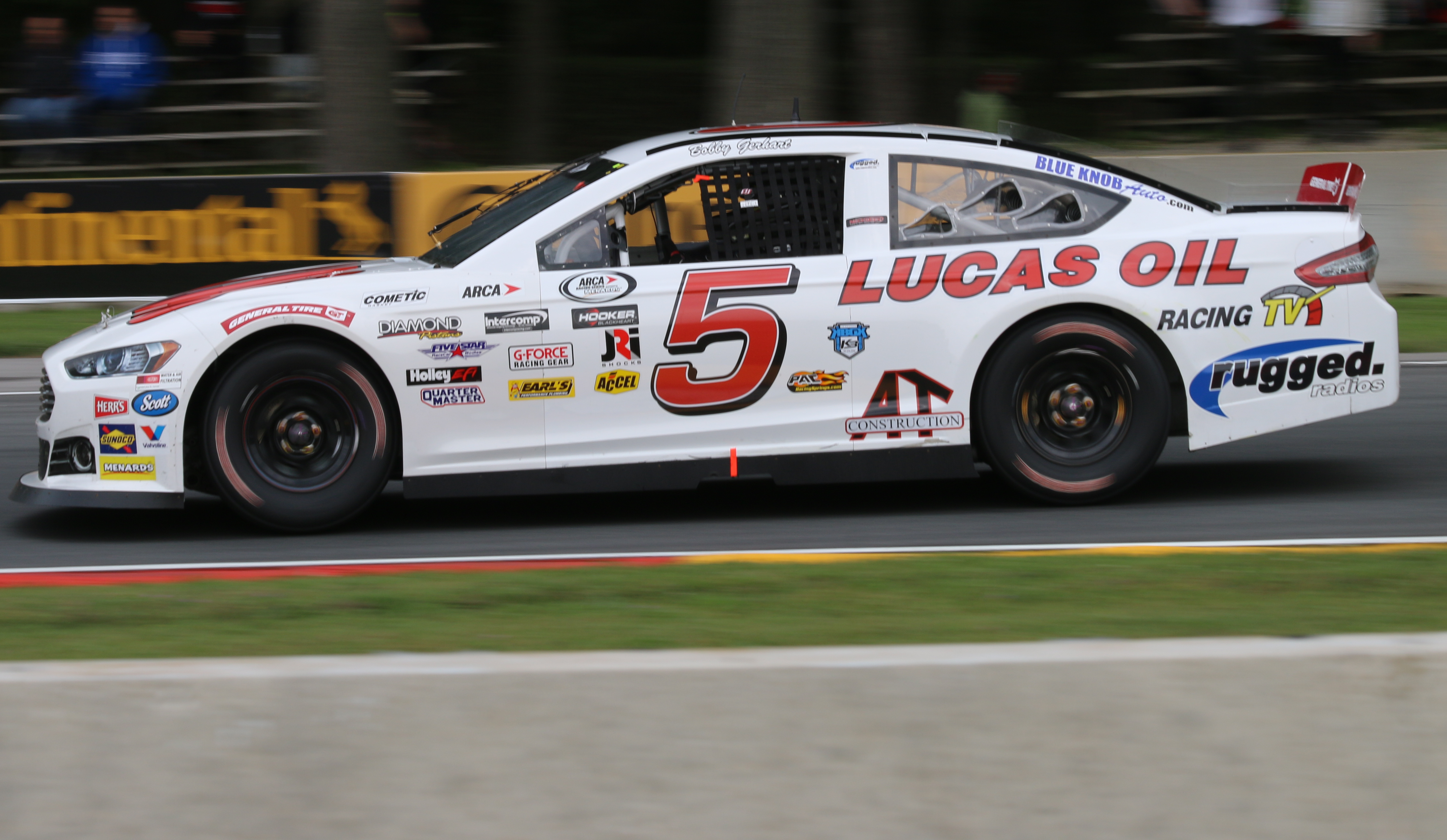 The ARCA Racing Series car of Bobby Gerhart at the 2017 Road America 100 race.